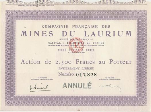 Share of Compagnie francaise des mines du Laurium established in 1875